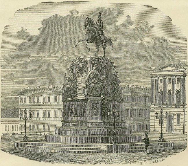 Book Illustration from the "Voyages and travels, or, Scenes in many lands : with eight hundred and fifty illustrations on wood and steel of views from all parts of the world, comprising mountains, lakes, rivers, palaces, cathedrals, castles, abbeys, and ruins, with original descriptions by the best authors". Edited by Leo de Colange. — Boston E. W. Walkers & Co, 1887. The Monument to Nicholas I (Russian: Памятник Николаю I) is a bronze equestrian monument of Nicholas I of Russia on St Isaac's Square (in front of Saint Isaac's Cathedral) in Saint Petersburg, Russia. Unveiled on July 7th [O.S. June 25th] 1859, the six-meter statue was a technical wonder of its time. It was the first equestrian statue in Europe with only two support points (the rear hooves of the horse), the only precedent being the 1852 equestrian statue of U.S President Andrew Jackson.